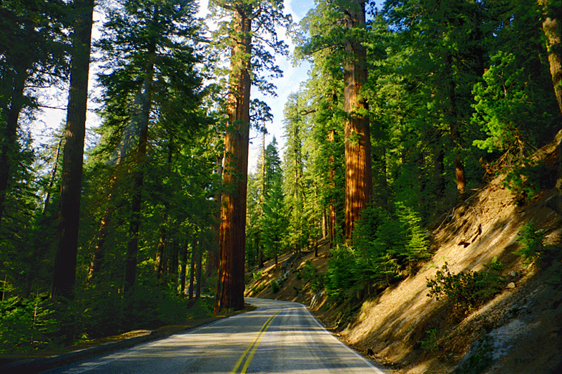 Sequoia National Park, California, USA - the Generals Highway passes between giant sequoias (sequoiadendron giganteum)